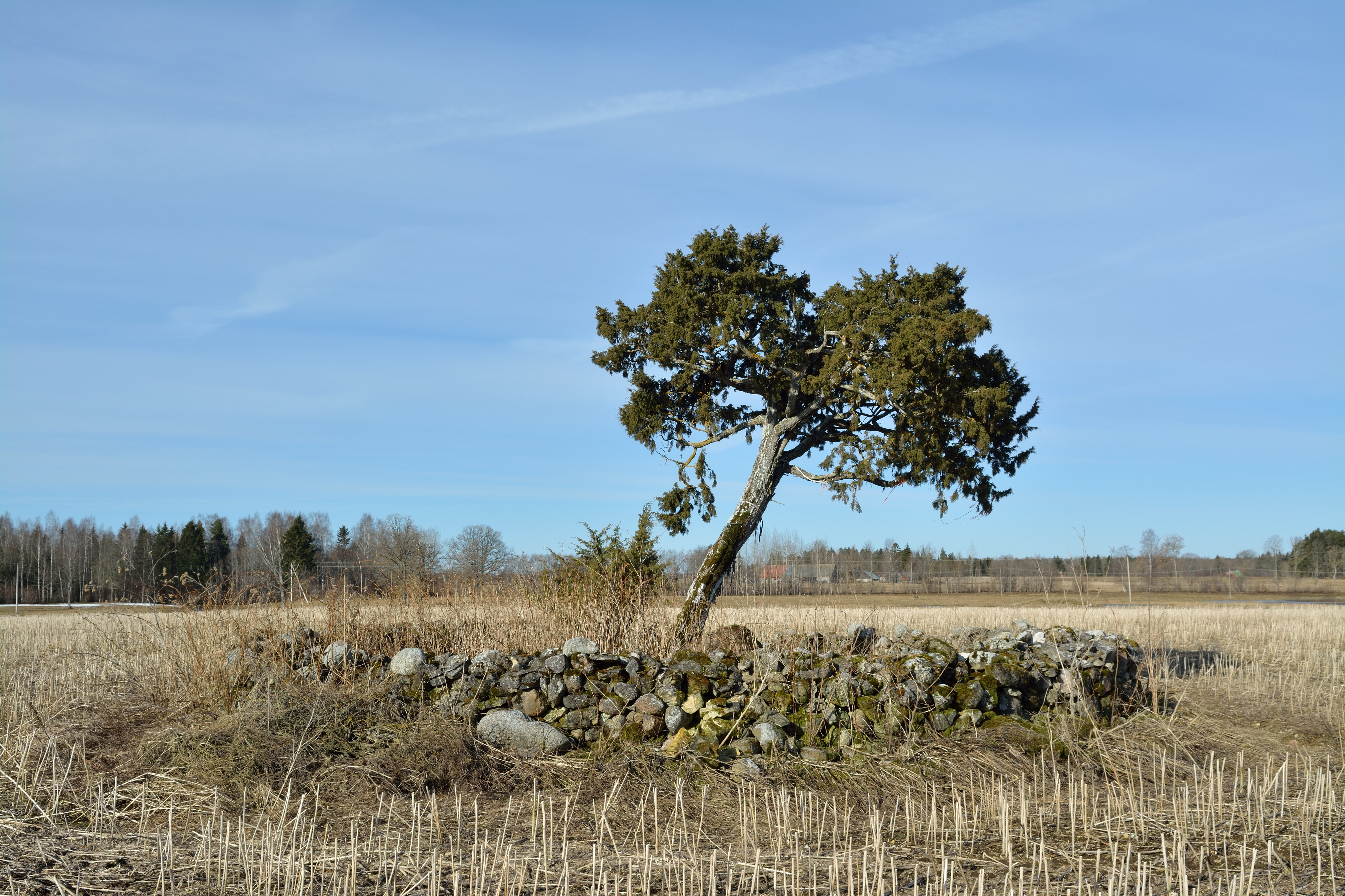 Kataveski juniper (Juniperus communis)